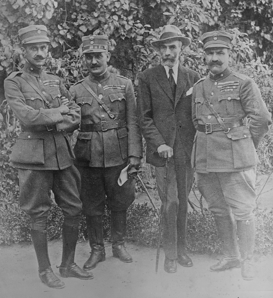 The senior members of the Revolutionary Committee of the September 1922 Revolution, l-to-r: Colonel Plastiras, Colonel Gonatas, Admiral Hatzikyriakos, Colonel Protosyngellos